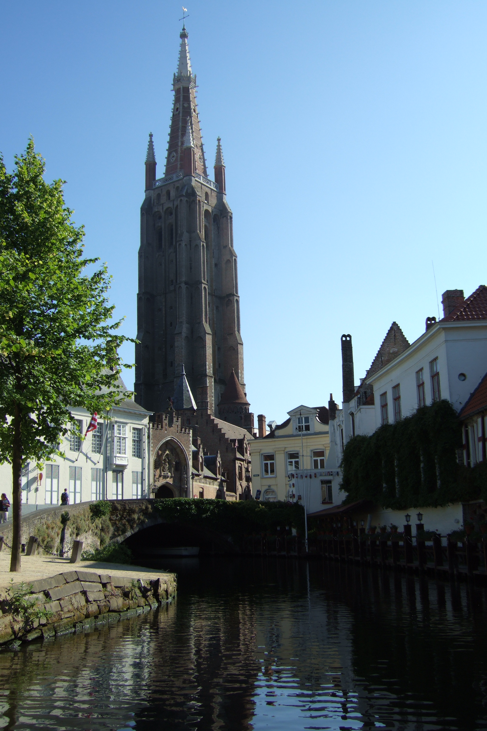 Brugge, Belgium. Tower of the Church of Our Lady (Onze-Lieve-Vrouwekerk), viewed from northeast.